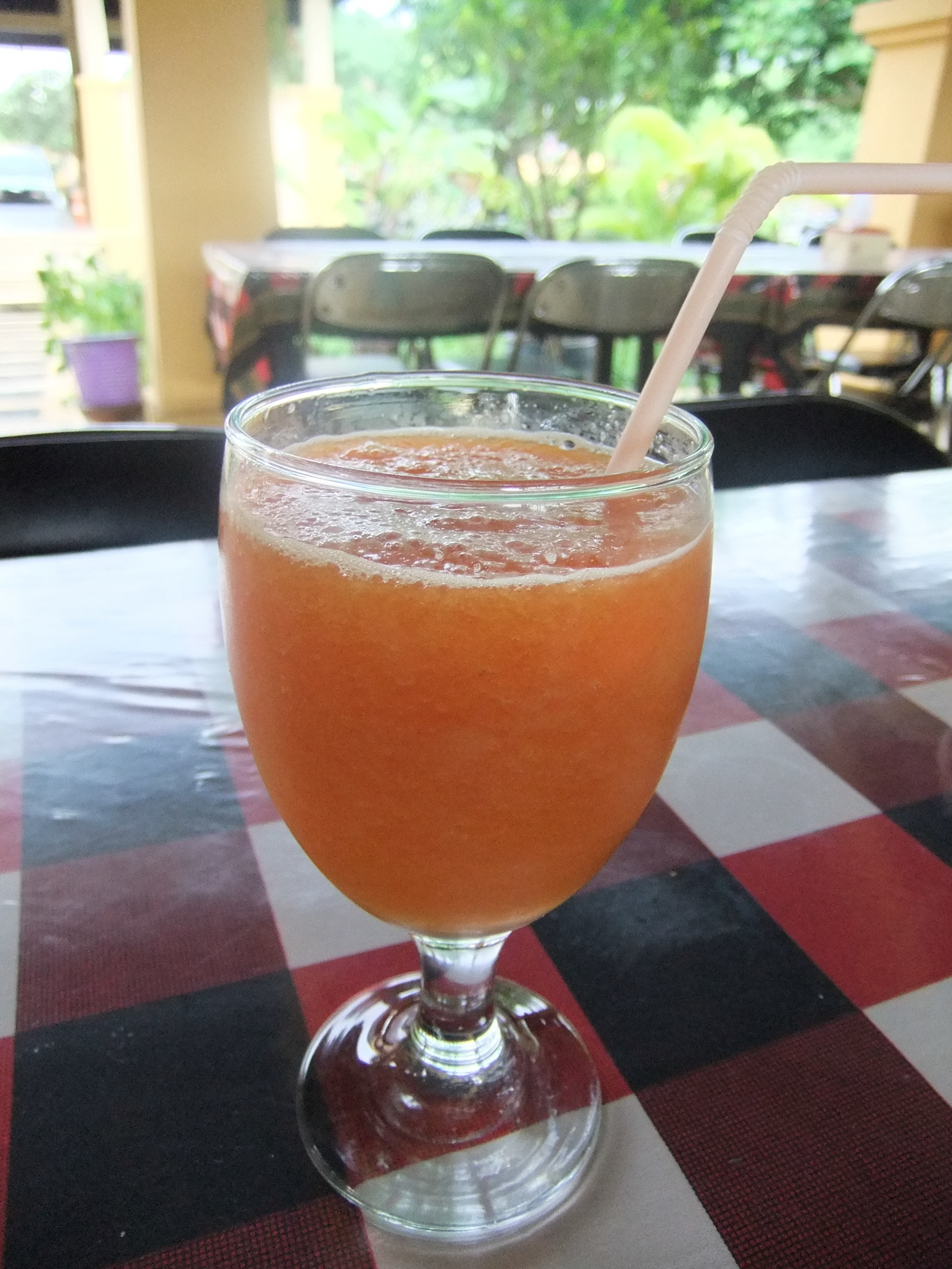 Papaya Juice